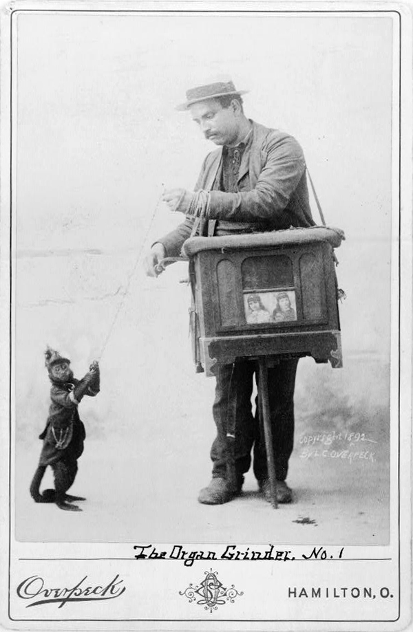 Man with street organ and monkey on chain.